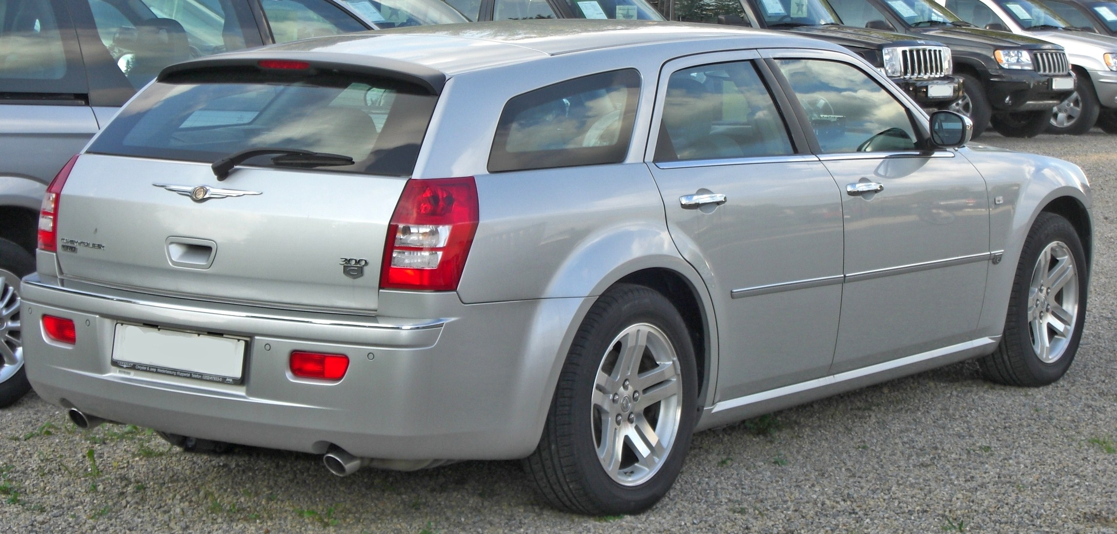 Chrysler 300C Touring